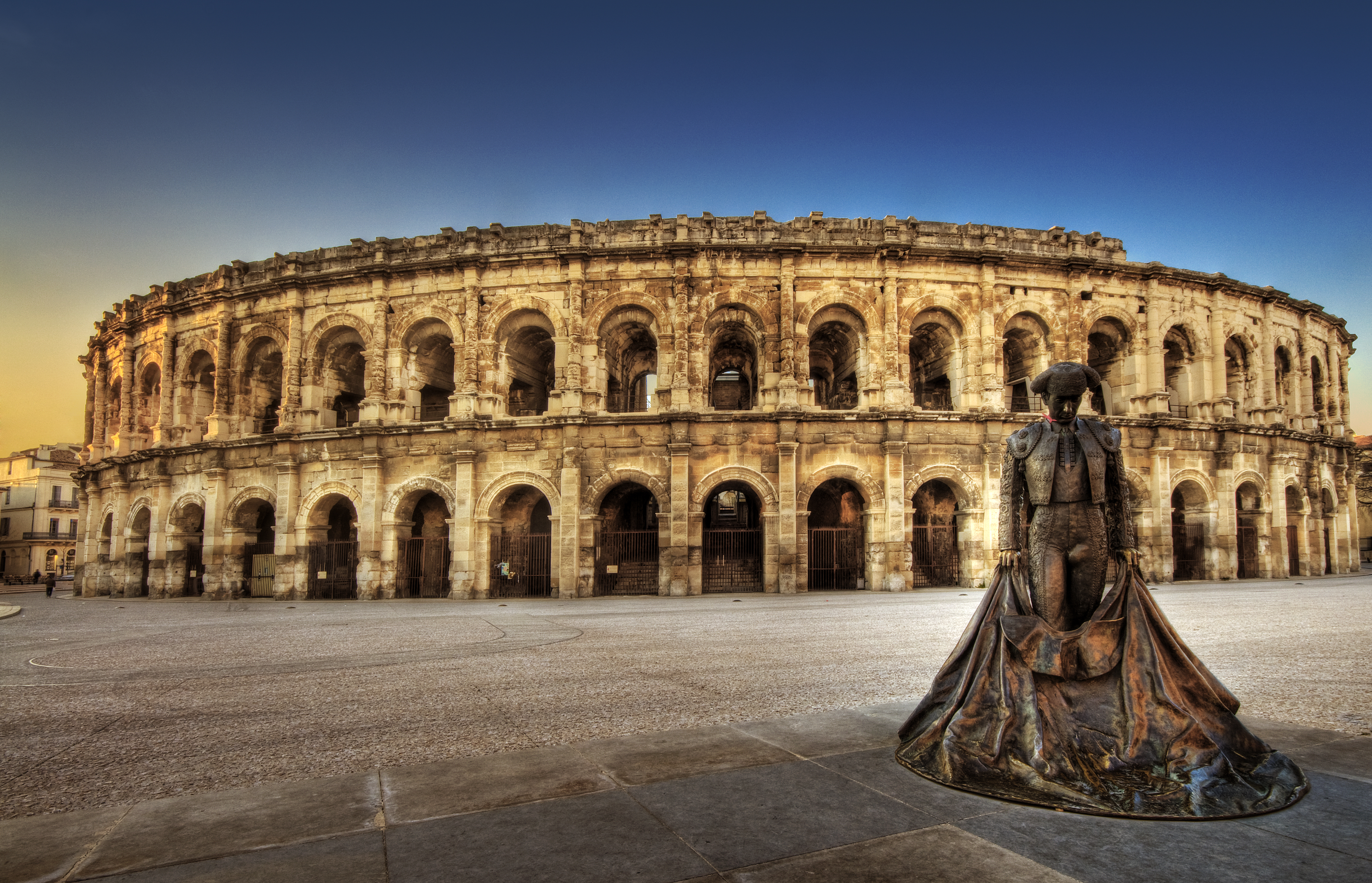 Arena of Nîmes, France.